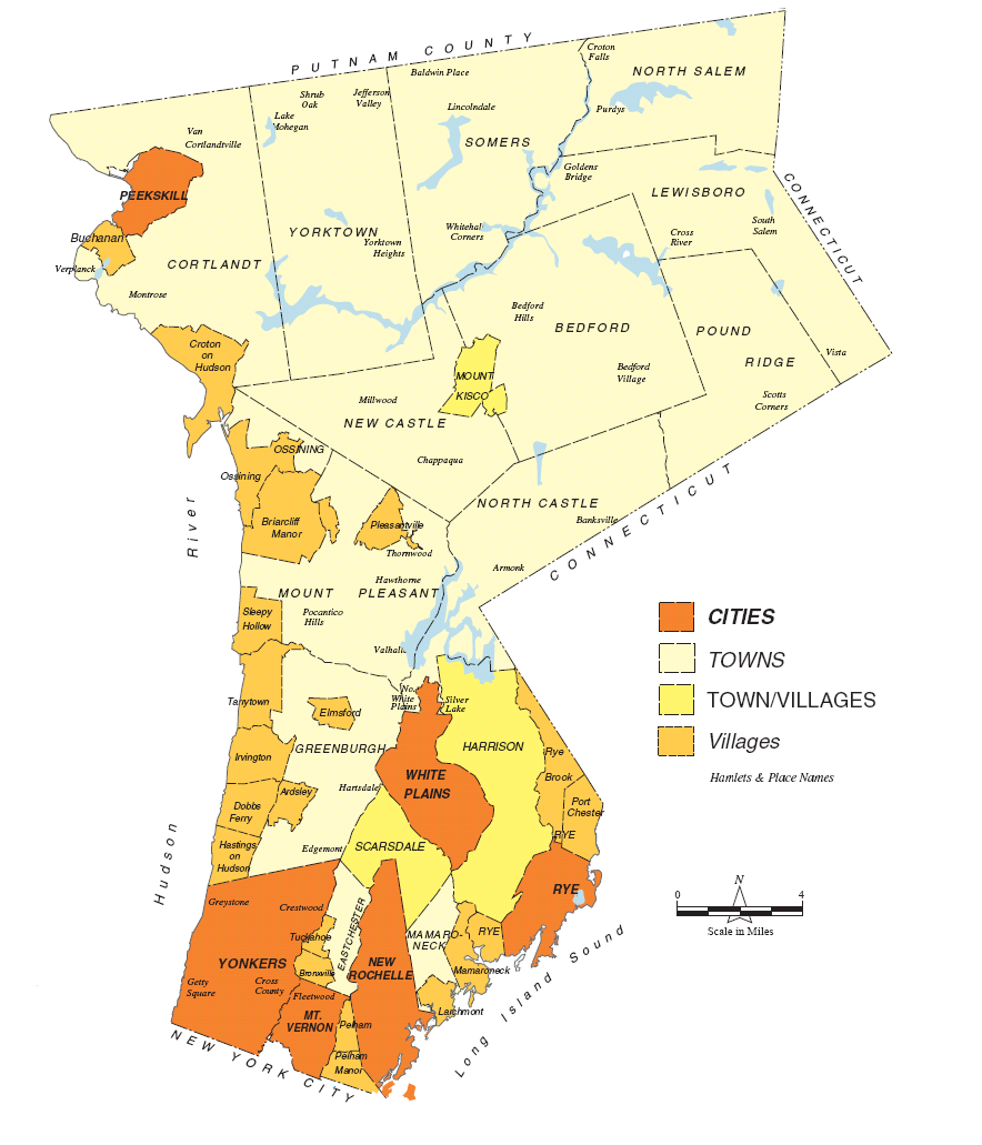 This map of the municipalities in Westchester County is an enhancement (created by me) of the original provided on the county website.